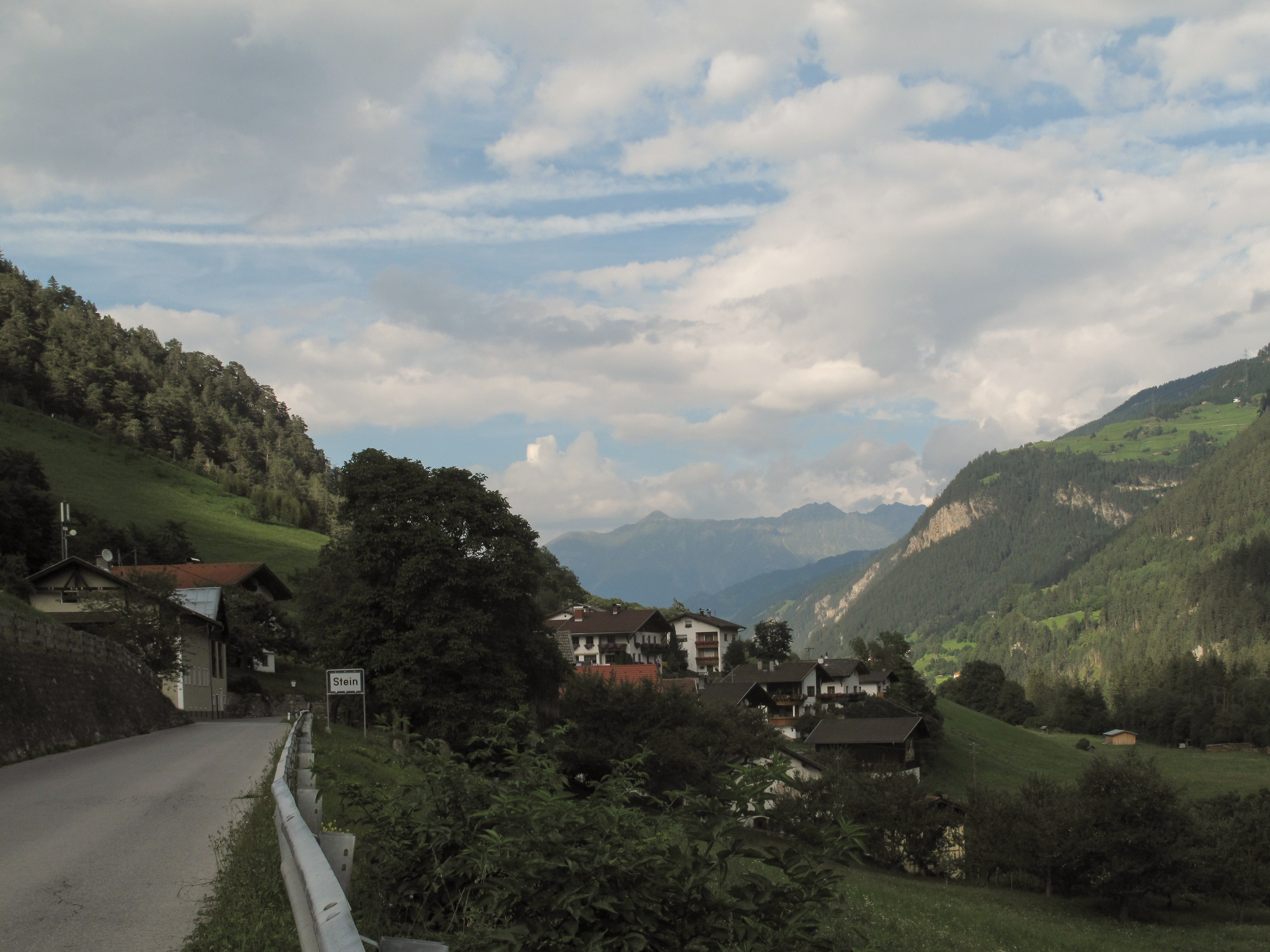 Stein, view to the village